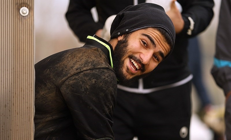 Amir Abedzadeh in Tehran